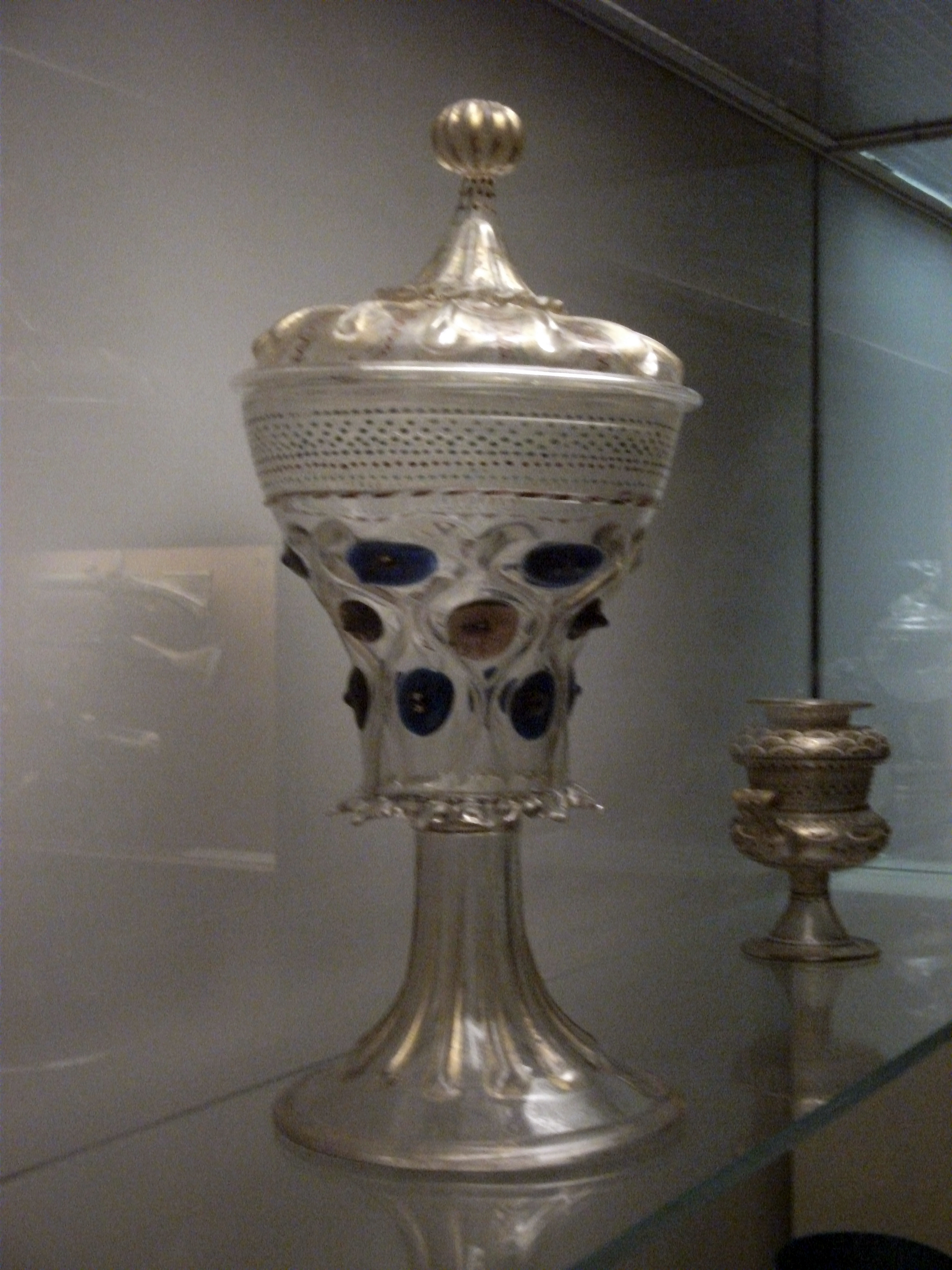 Room 45, British Museum